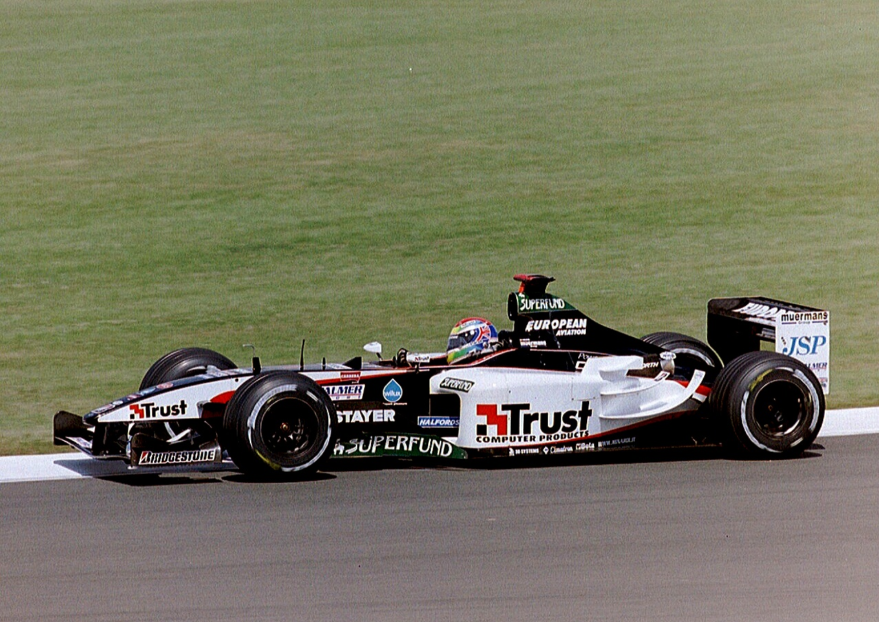 Justin Wilson, driving his European Minardi Cosworth at the 2003 British Grand Prix.